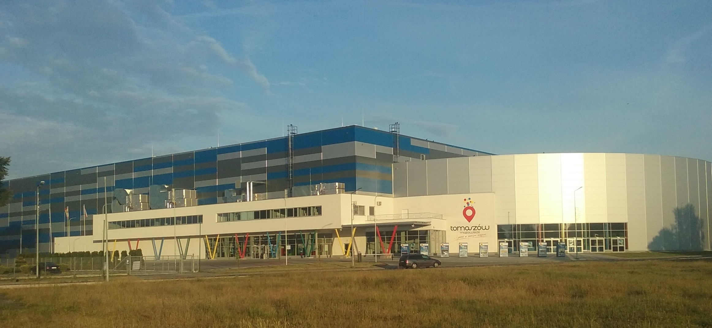 Ice Arena is the first multifunctional building where competitors of various winter disciplines can train: speed skating, figure skating, hockey and short track. We hope that skaters of these four disciplines will feel in Ice Arena like at home. This investment was promoted by the President of Tomaszów Mazowiecki (Marcin Witko) and Ministry of Sport and Tourism (Witold Bańka). The main contractor of this project was the construction company from Radom (Rosa-Bud). Ice Arena has total capacity of 292,000 m3. There is full-sized ice rink for speed skating which length is 400 m, ice hockey rink, figure skating rink and oval ice track. It is one of the biggest building of this kind in Poland which has four zones of ice freezing, modern audio and lighting system to transmission HD. Tomaszów Mazowiecki is the town in centre of Poland where tourists both from our country and from abroad are always welcome. Convenient location and well-developed transport enable tourists to arrive even from the most faraway corners. The town is famous not only for sport. Surroundings of Ice Arena attract tourists because of natural beauty. It can be said that forests in Spała Landscape Park are the green lungs of this region. Niebieskie Źródła Nature Reserve, which lies in the Pilica Valley, causes that Tomaszów stands out from other places. It has been created to protect underground springs that have blueish colour. The reserve is refugium for many species of birds. Depending on weather conditions we can see various shades of green sand. Water that flows out from calcareous springs absorbs red rays and reflects blue and green rays from the bottom. Consequently, we can observe various hues of green colour.